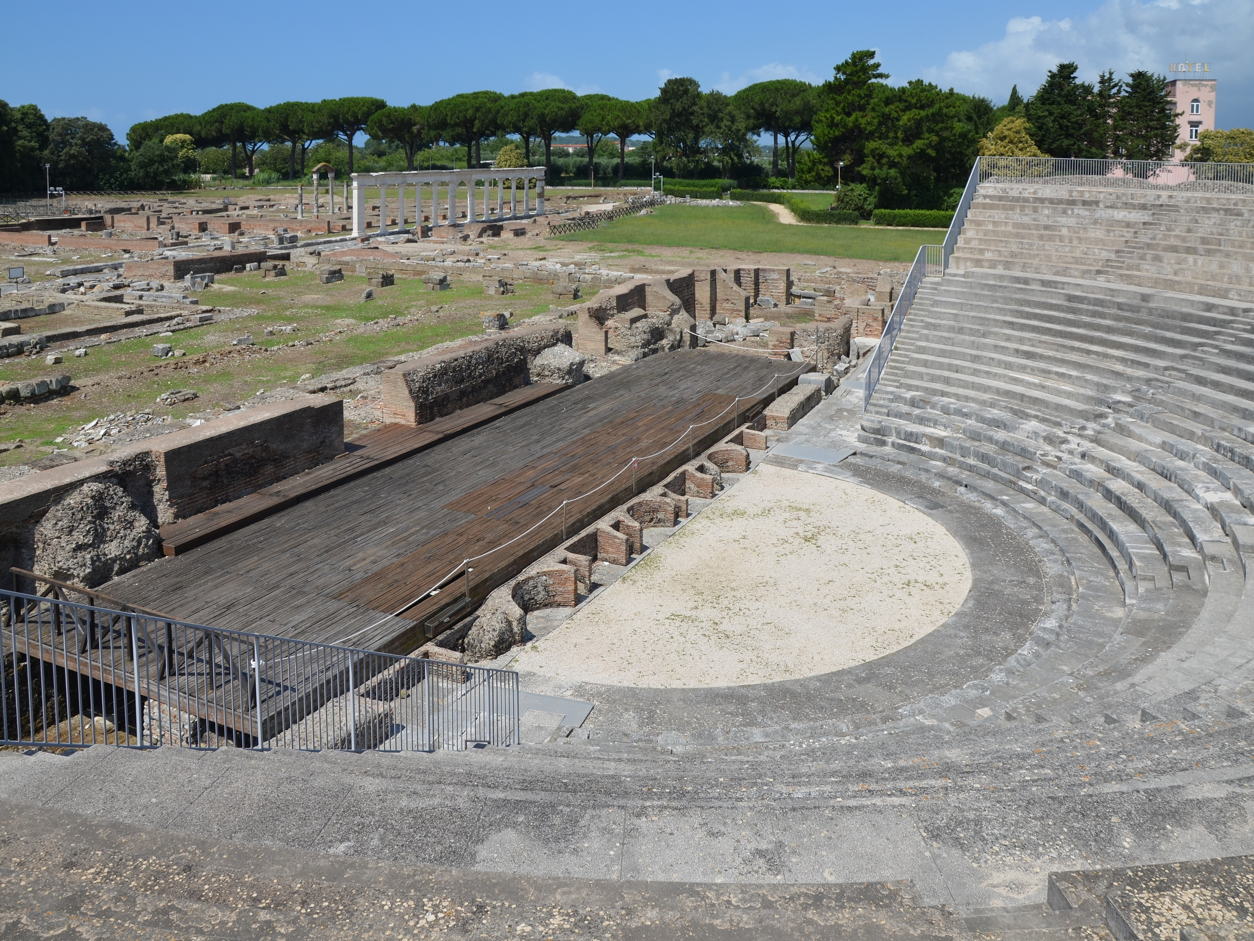 The Roman theatre, built in the late Republican era or at the beginning of the Empire, Minturnae, Minturno, Italy